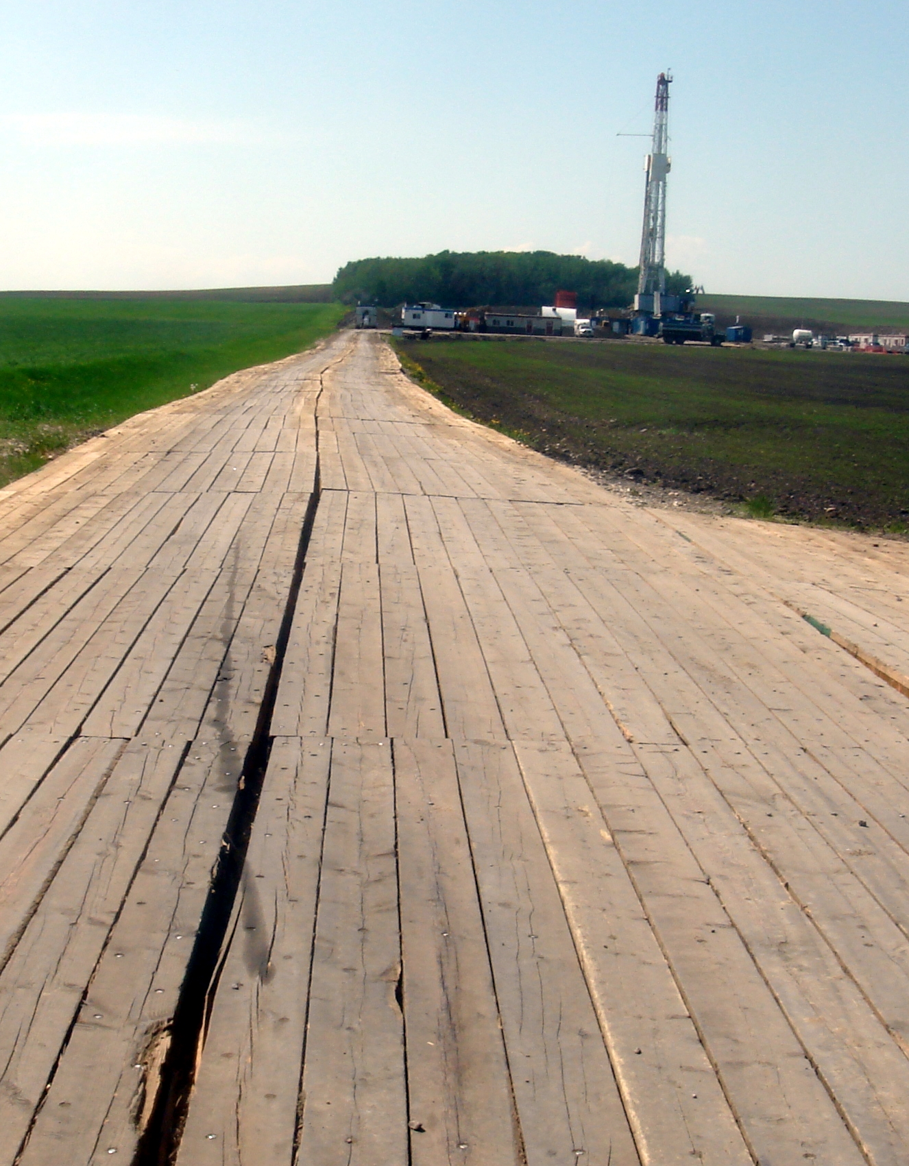 Temporary road made out of wooden planks.